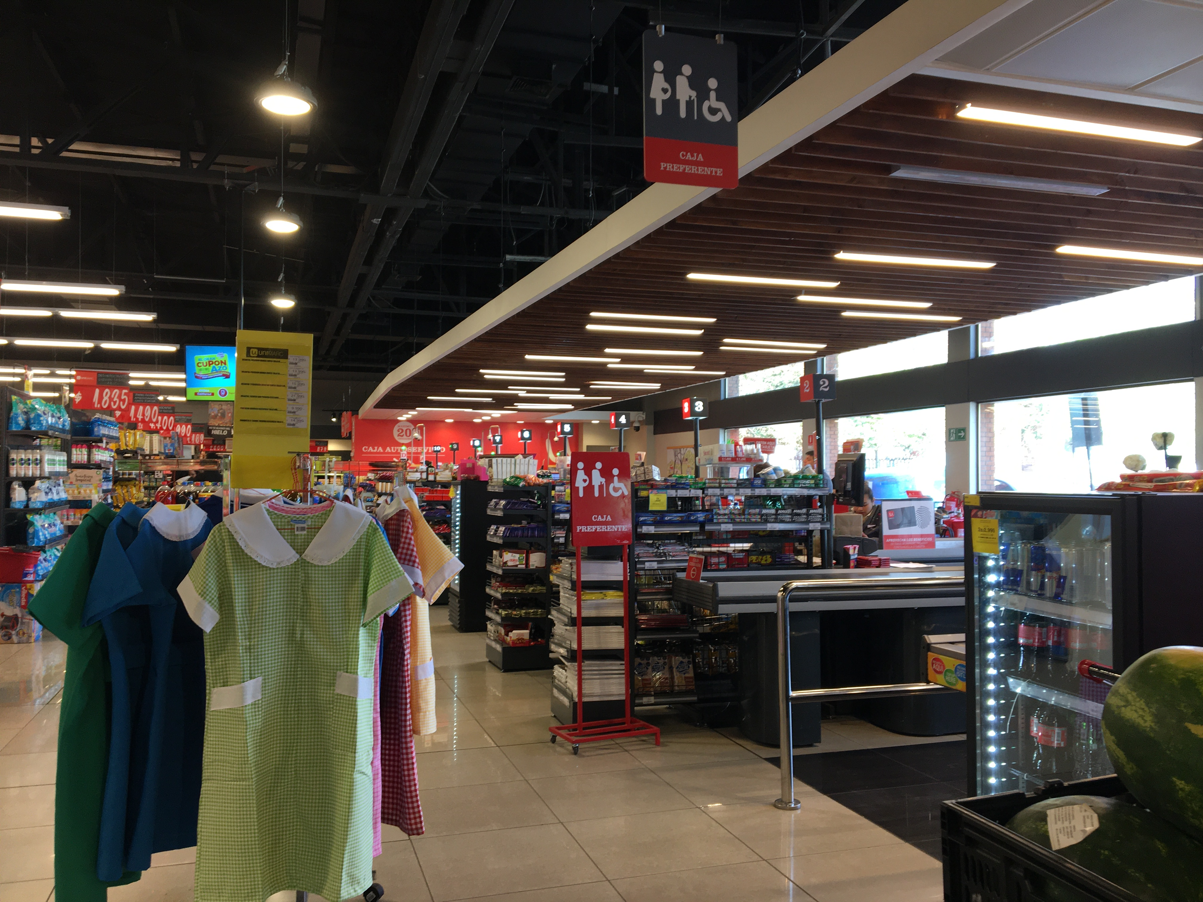 Unimarc Lo Curro